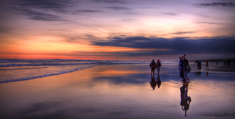 Sunset in Parangtritis. A beautiful place where colours of the sunset are simply magical.